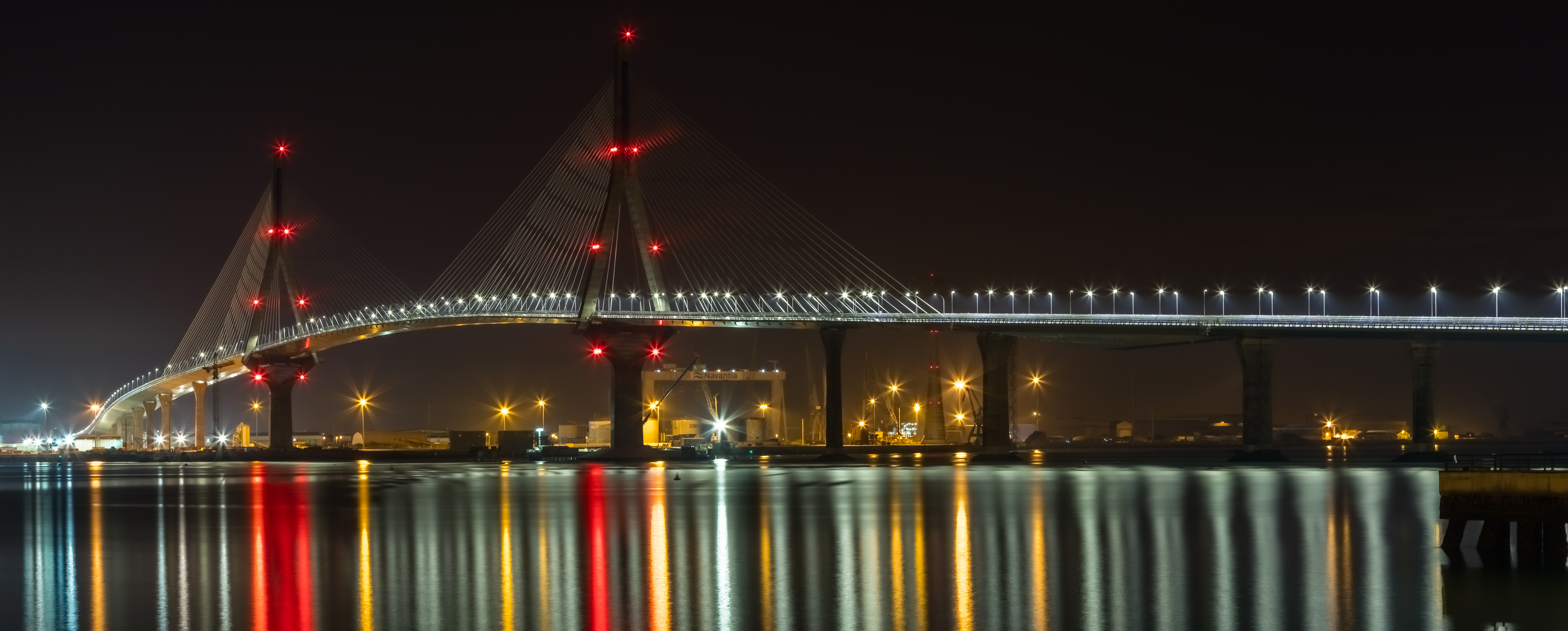 The 1812 Constitution Bridge, commonly known as "La Pepa Bridge" is a cable-stayed bridge that spans the Bay of Cádiz connecting the city of Cádiz with the Iberian Peninsula, Andalusia, Spain. The bridge, constructed between 2008 and september 2015, is 34.3 metres (113 ft) wide to host 2 lanes in each direction and 3,092 metres (10,144 ft) long, being the longest span 540 metres (1,770 ft). It has the second highest height for maritime traffic in the world (69 metres (226 ft)) after the Verrazano–Narrows Bridge in New York, USA.